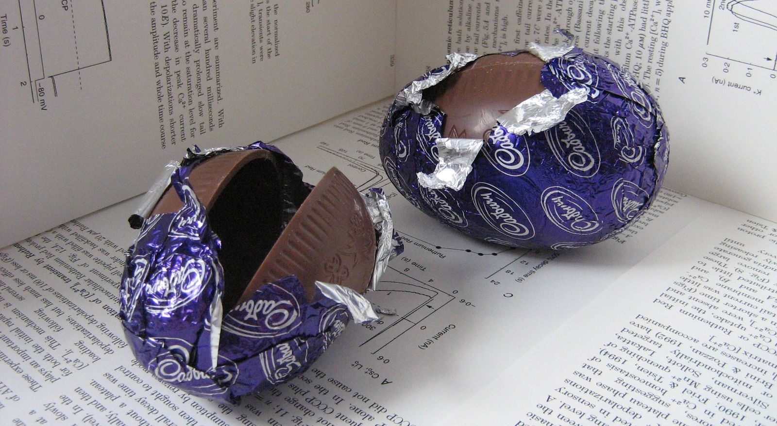 Straw into gold might be a tough one, but turning cute baby animals into gold is simple!